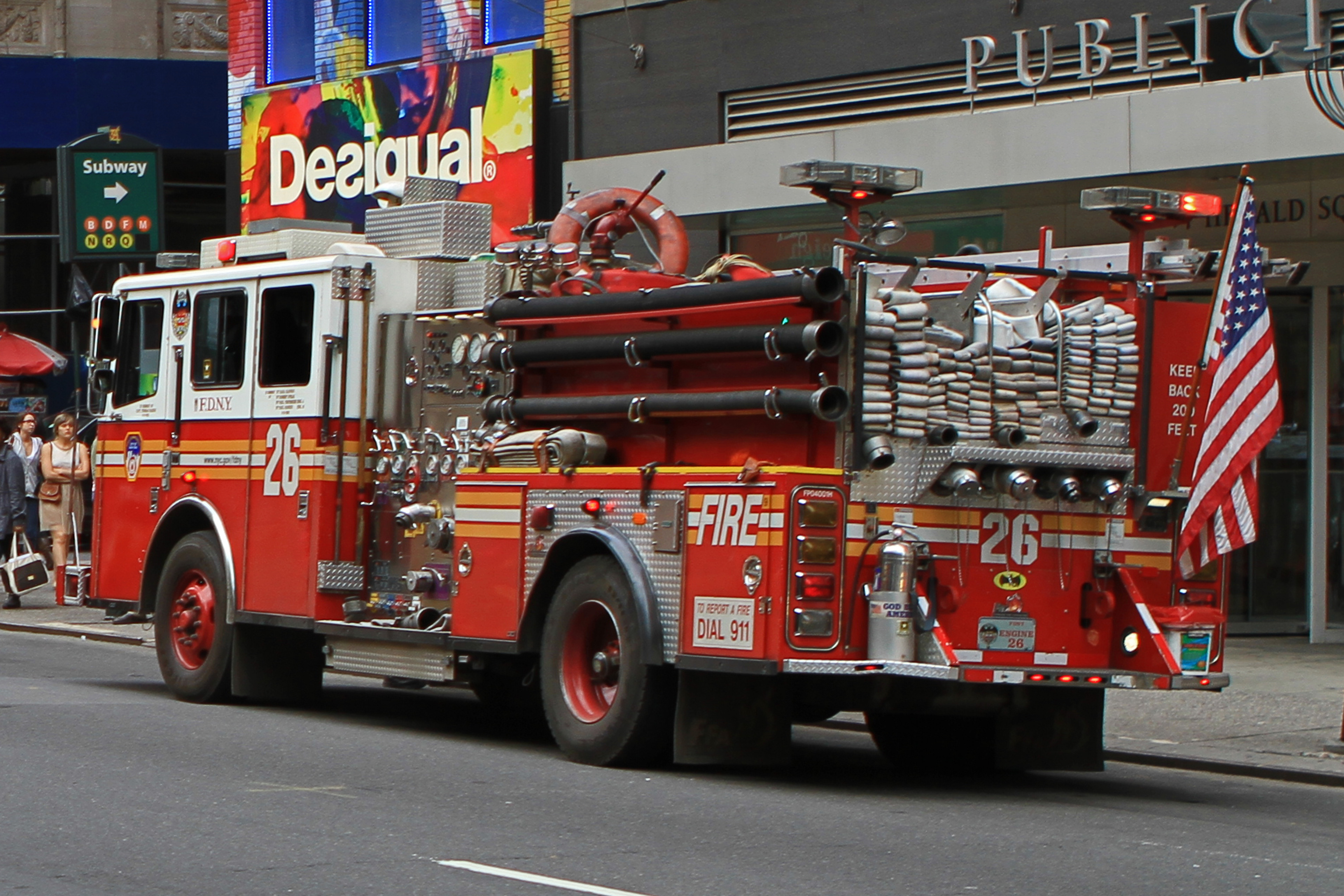 FDNY - Engine 26 in action at Herald Square